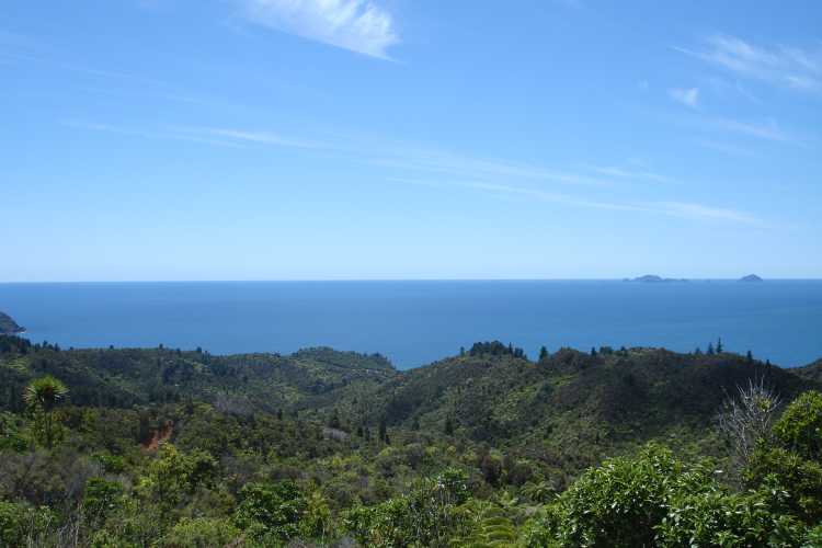 Author: Alex Bond Description: View over Mercury Bay from the Tairua-Whitianga Road on the Coromandel Peninsula, New Zealand. For use on Wikipedia pages related to: New Zealand, Coromandel Peninsula.